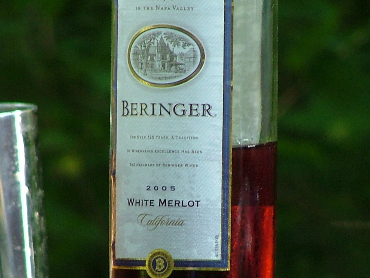 Beringer California White Merlot wine